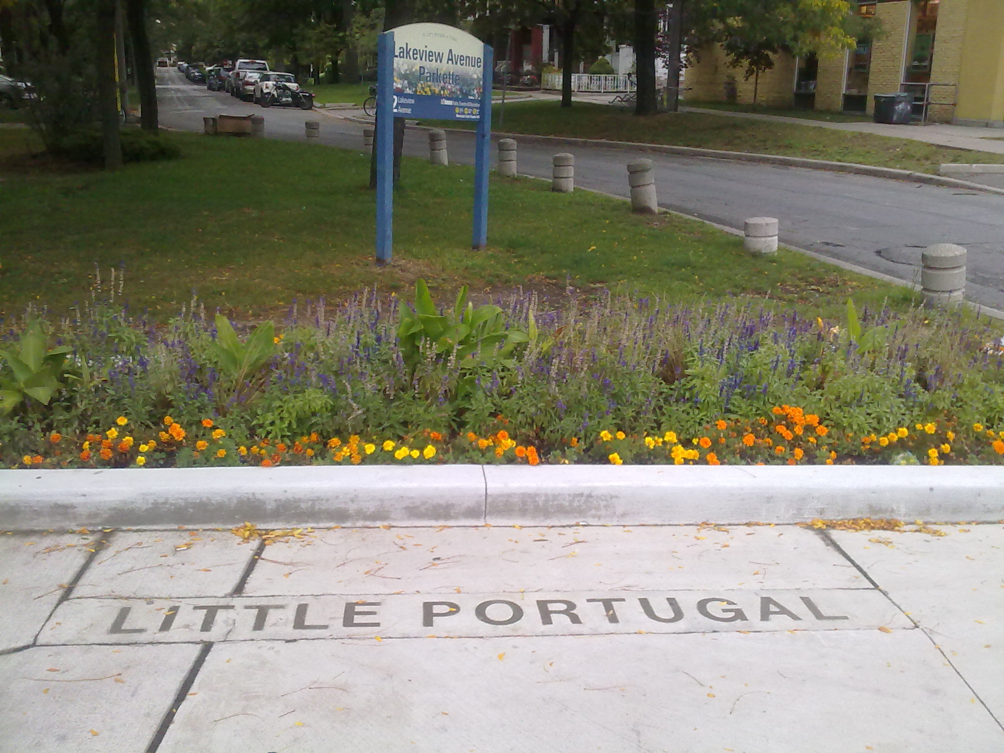 Little Portugal, in Toronto, Ontario, Canada.